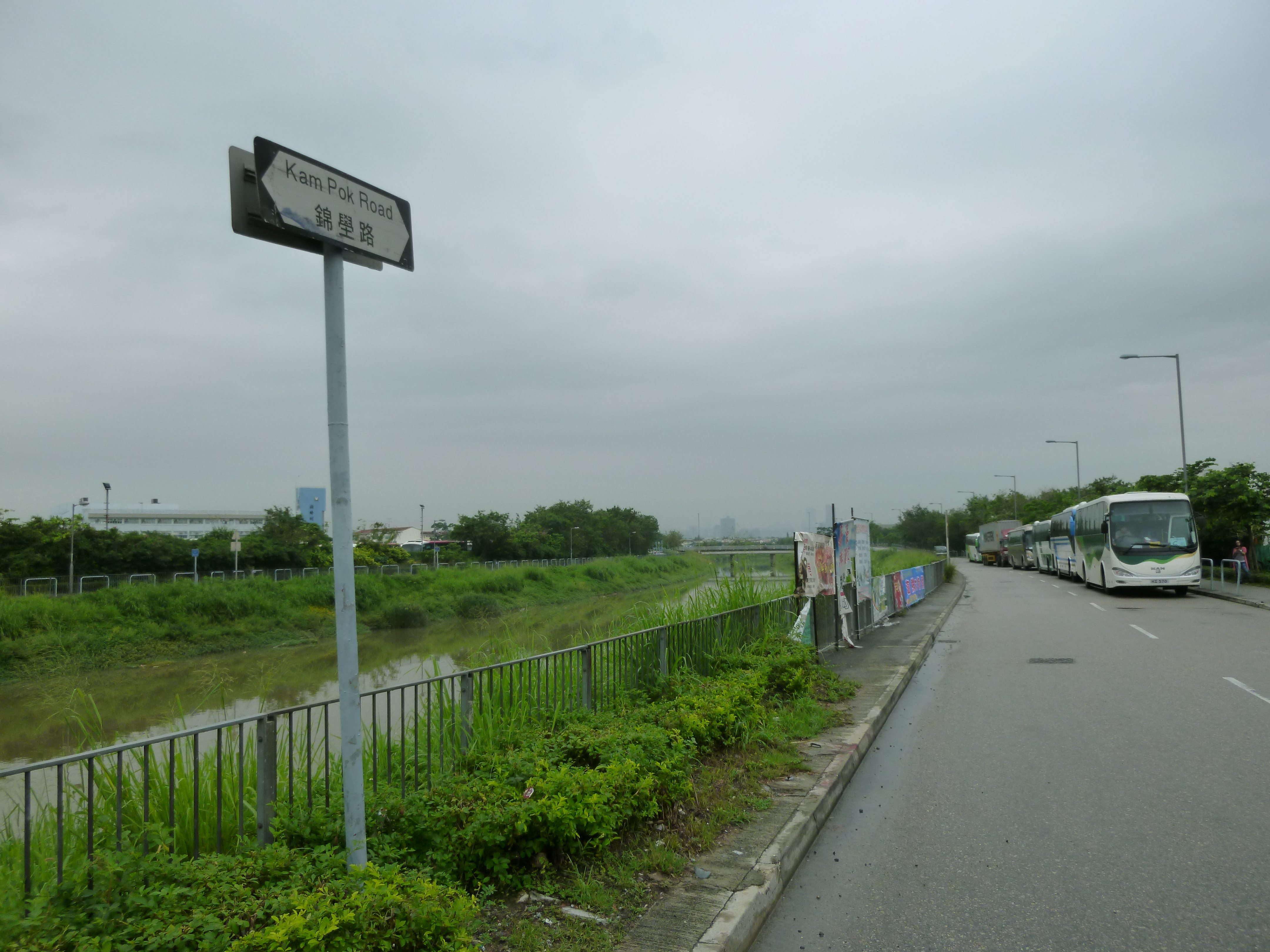 Kam Pok Road (Yuen Long, Hong Kong) 中文（香港）: 錦壆路 (香港新界元朗區)